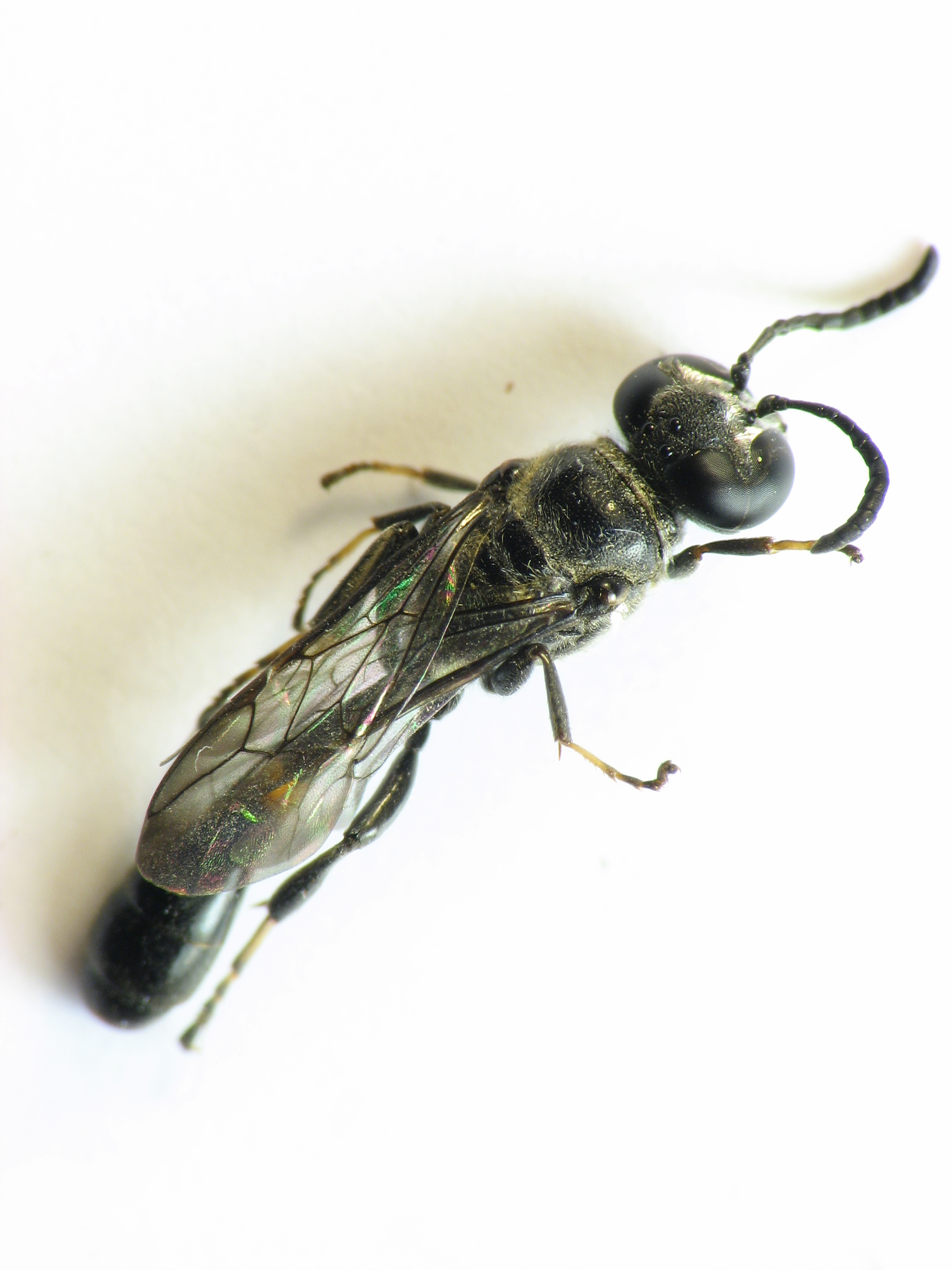 Square headed wasp, Trypoxylon collinum, adult. Size: 10 mm. Willow Grove, Montgomery County, Pennsylvania, USA.